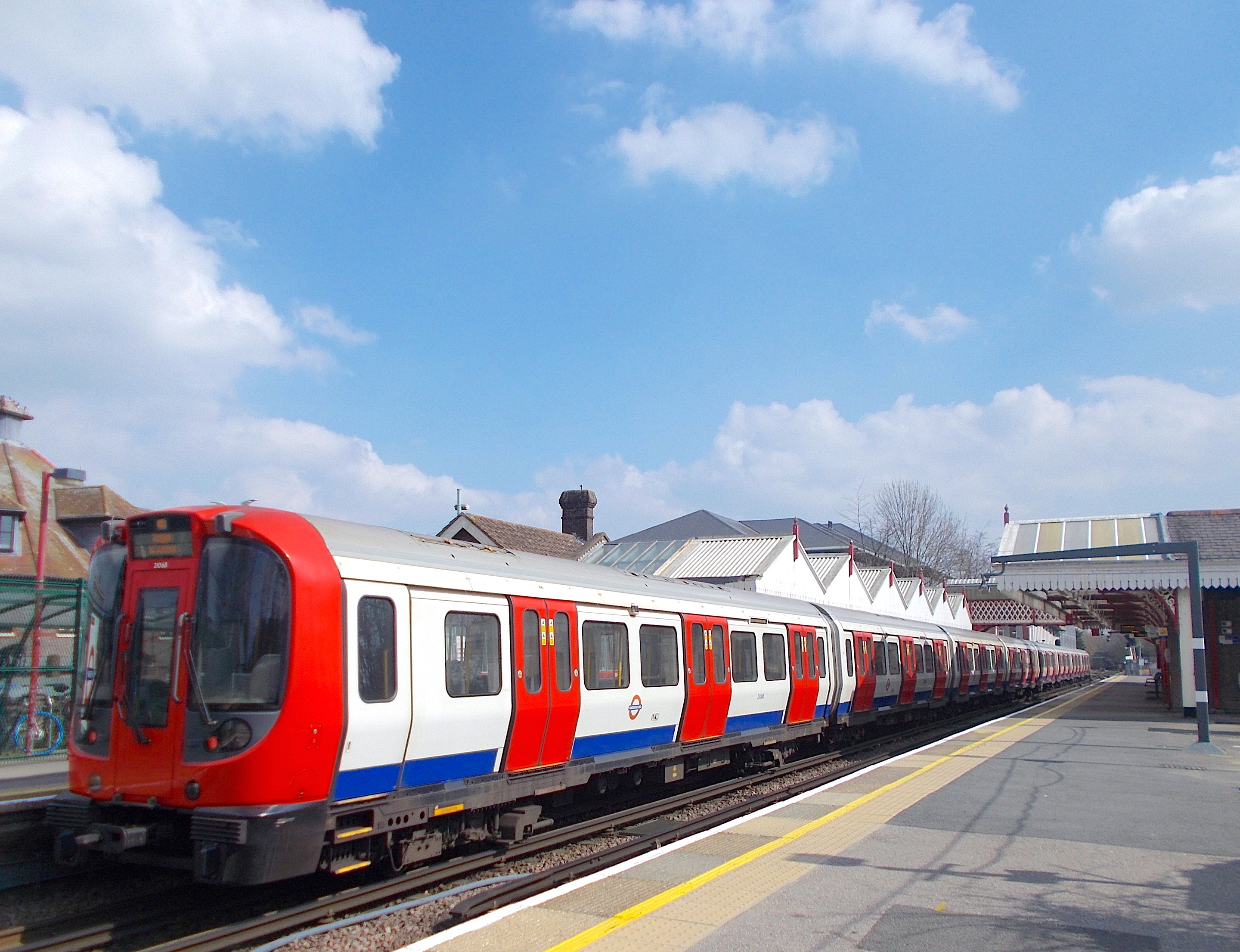 A Bombardier London Underground Metropolitan line S8 Surface Stock train at Amersham